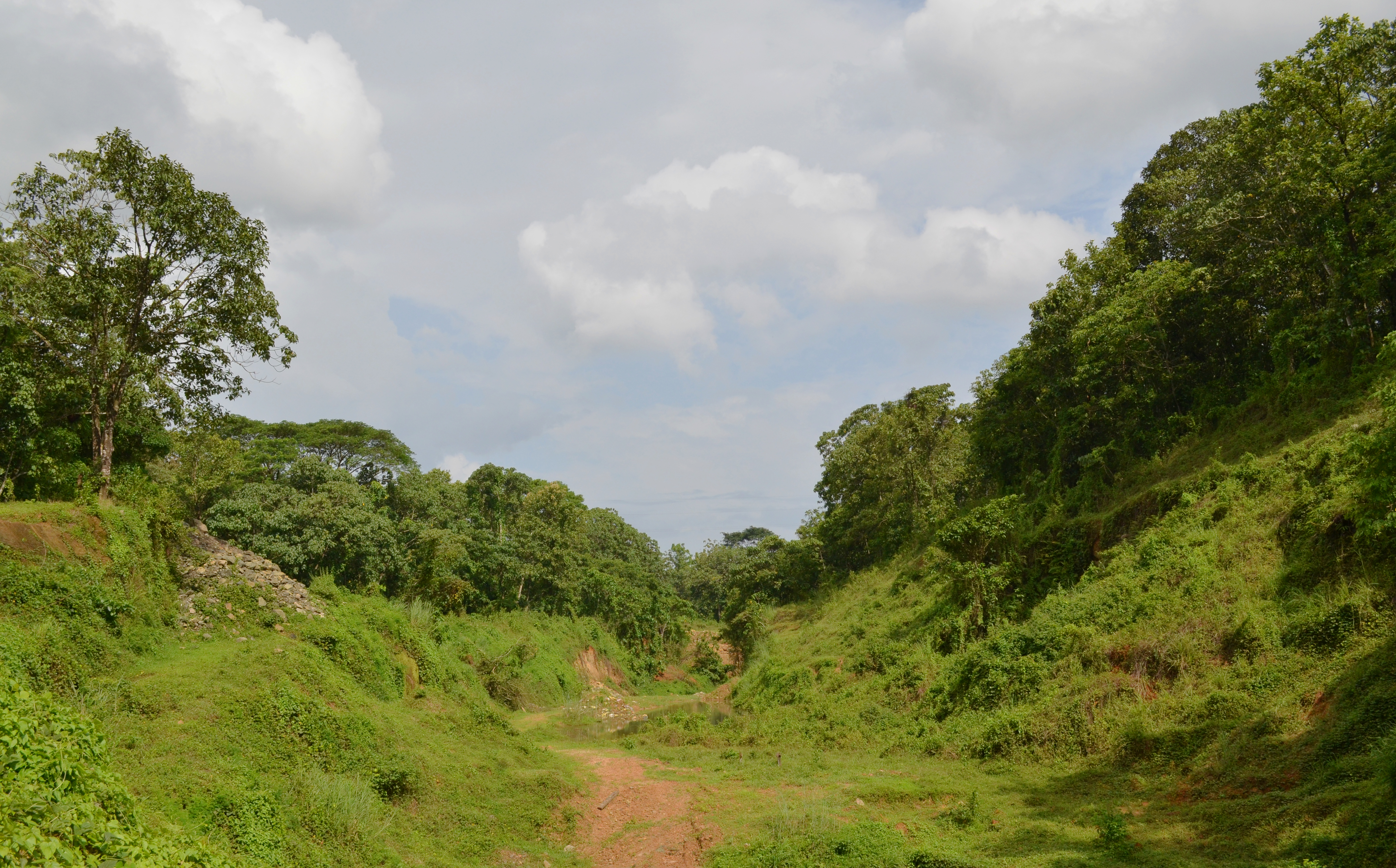 A beautiful view of Edamalayar Forest